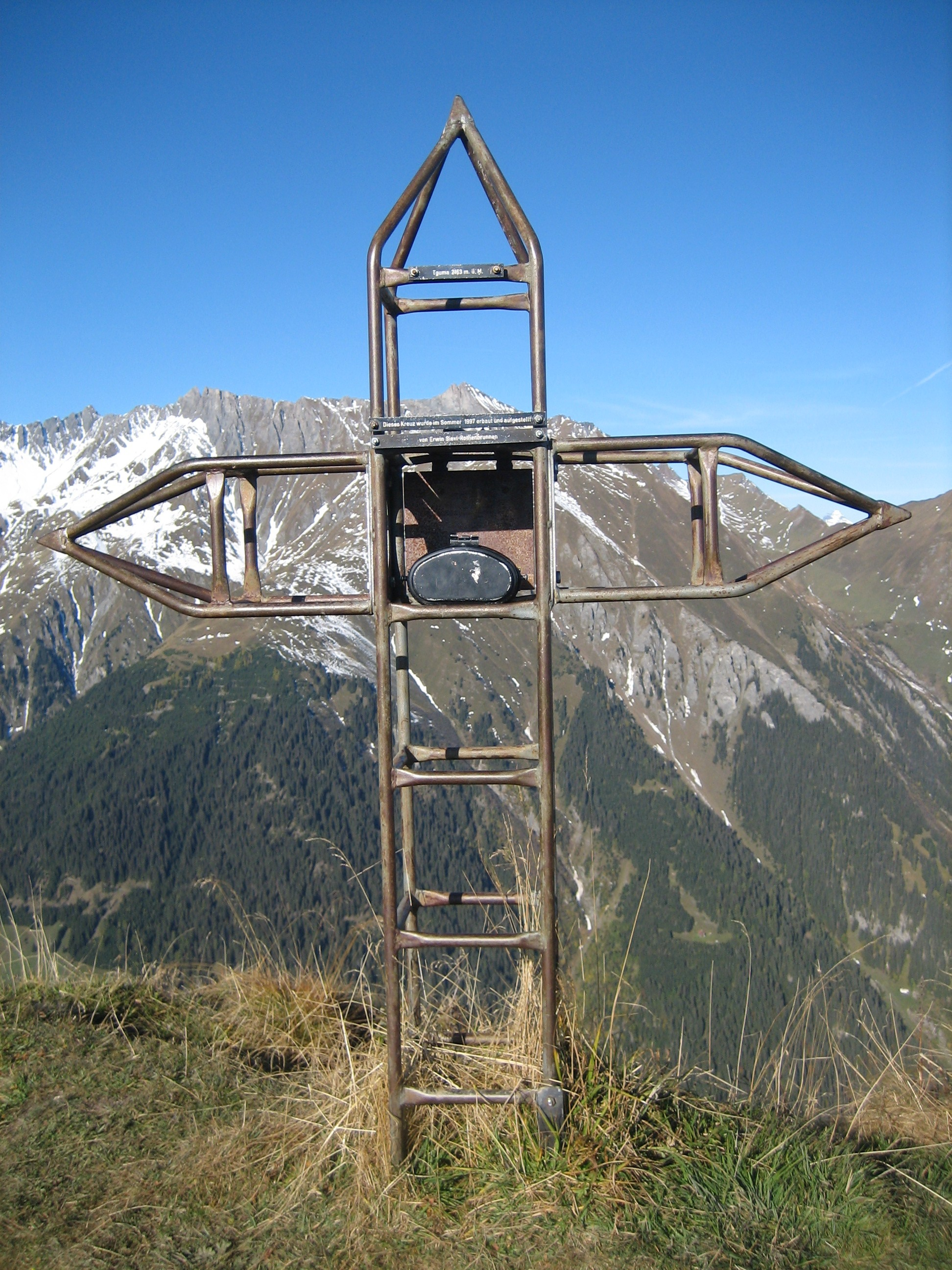 Summit Cross of Tguma, Safien, Cazis, Grison, Switzerland